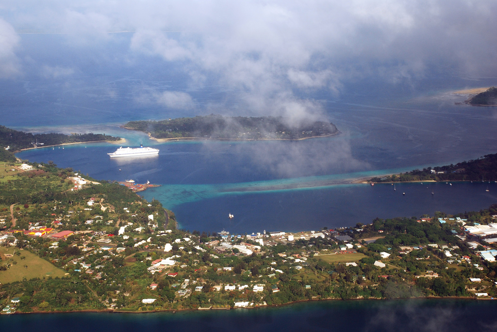 En route Port Vila to Auckland